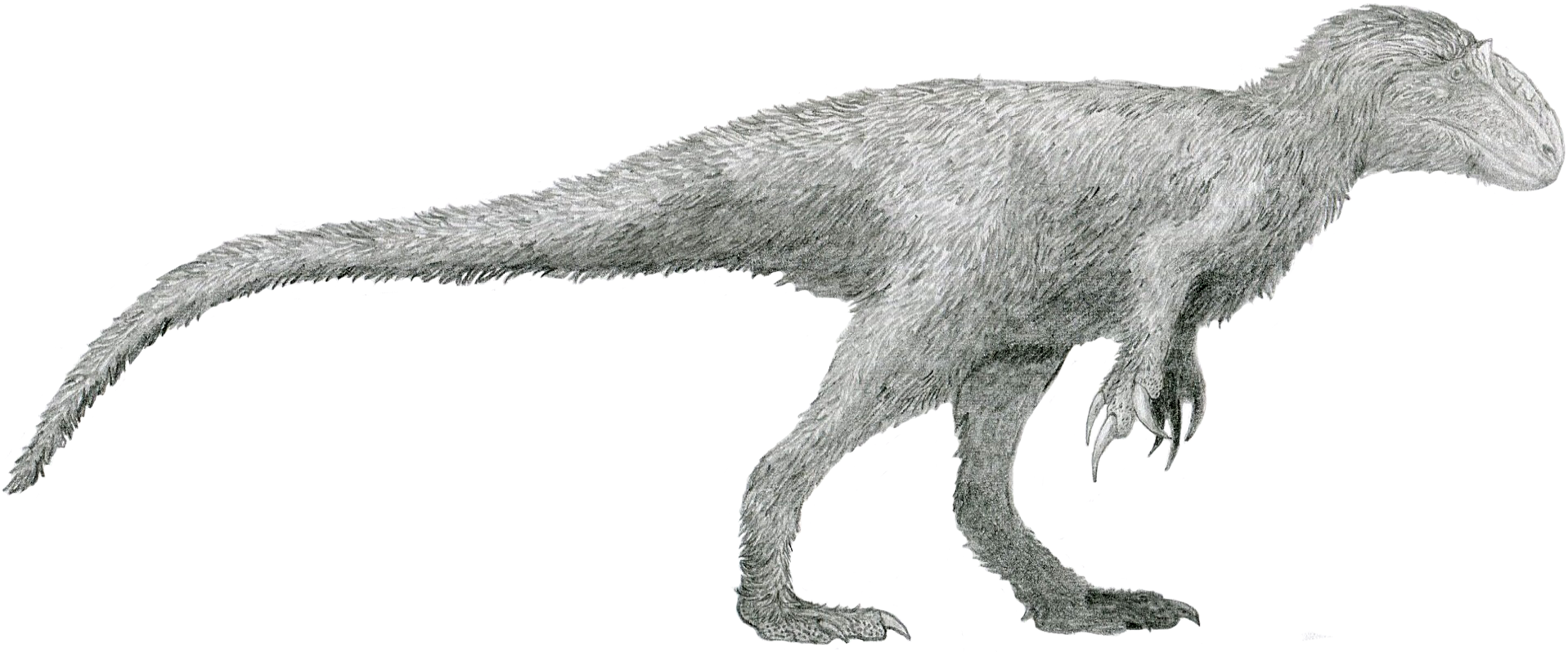 Life reconstruction of Yutyrannus huali (Tom Parker, 2016).